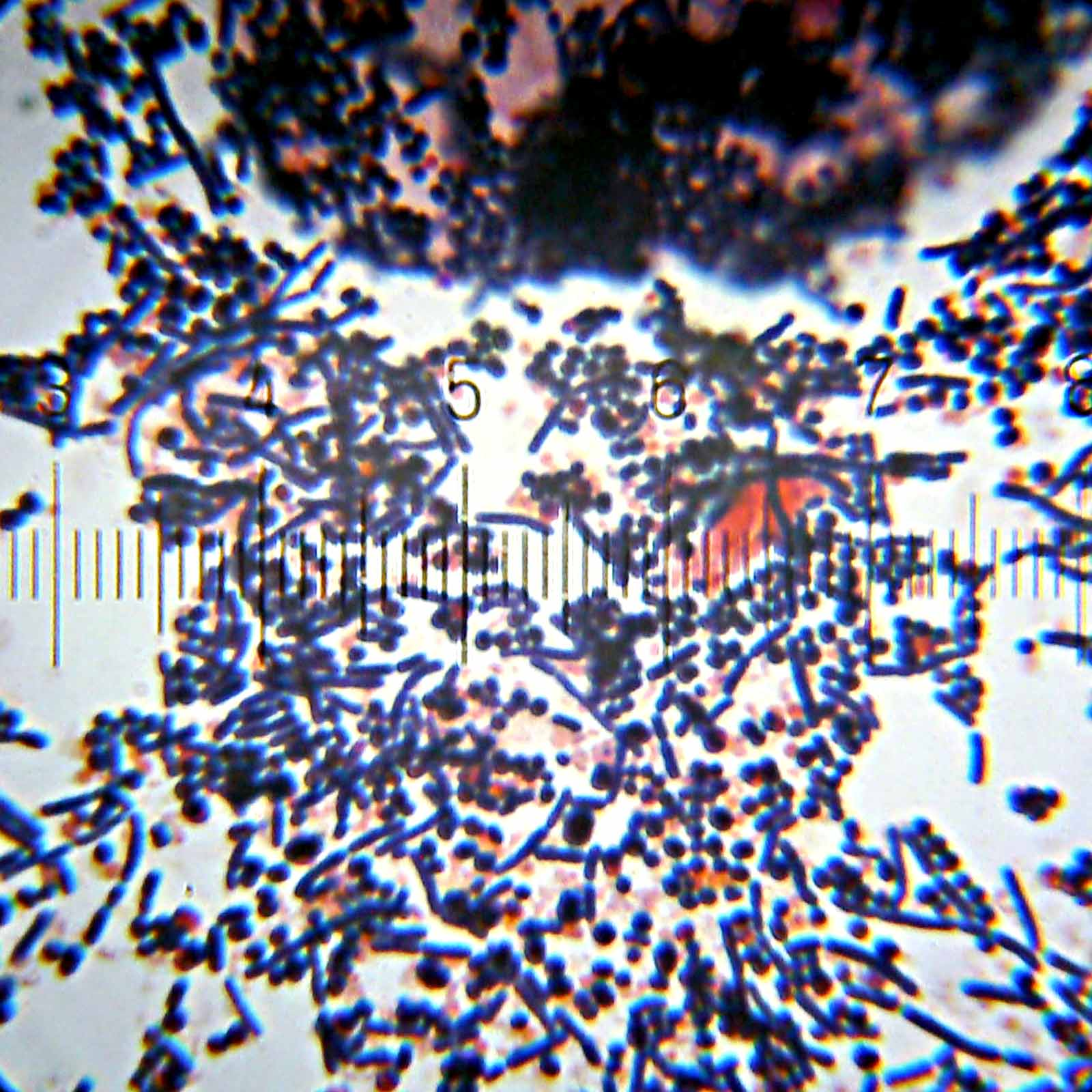 These bacteria were cultured from a urine sample from a woman who thought she had a urinary tract infection. I'm definitely not seeing any Escherichia Coli in this sample, which is supposedly the most common agent by far in such infections; that, being Gram-negative would have stained pink. Perhaps the cocci might be Staphylococcus saprophyticus, that supposedly being a distant second most common cause of such infections. I don't know what the bacilli might be, I have no information about any form of those that are common in this sort of infection. But then, I'm strictly an amateur at this sort of thing. Surely it is a symptom that one's hobby is making one weird; when one's first reaction, on hearing from one's wife that she thinks she might have a urinary tract infection, is to want a sample to examine under one's microscope. I didn't actually see much on directly examining the sample provided by my wife, so I put a bit of it in a Petri dish to see what I could culture out. This was much slower to grow than other bactiera I have cultured in this manner. After ten days, using Micrology Laboratories' Easygel medium at room temperature, I had grown barely enough for one slide. This picture was taking using a 100× oil-immersion objective, together with a 15× eyepiece that contains the numbered scale that appears in this image. The numbered ticks on the scale are eleven (11) microns apart, the smaller unnumbered ticks being 1.1 microns apart. And of course, this sample was Gram-stained.